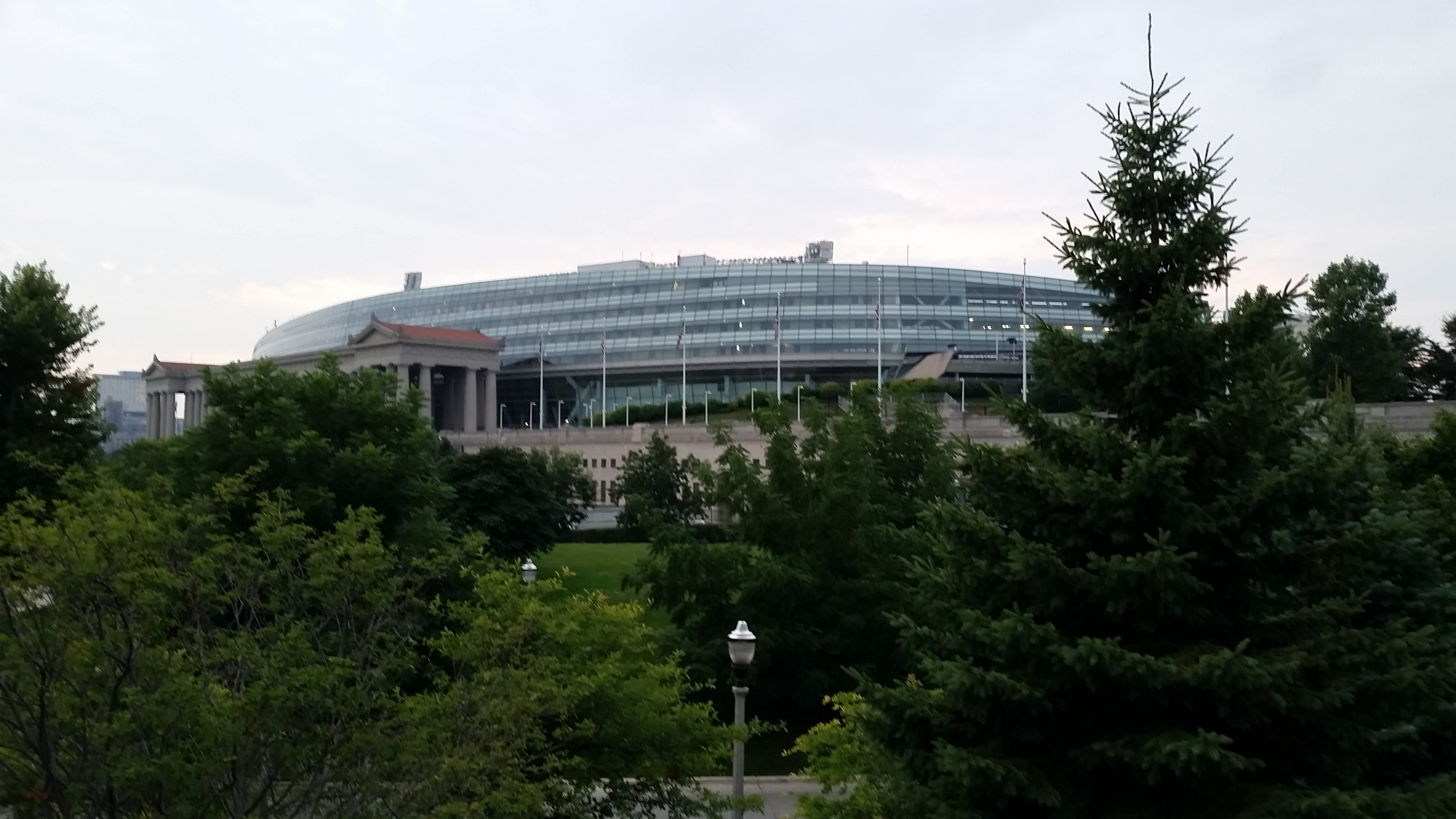 1410 Museum Campus Dr, Chicago, IL World's Fair of Money 2014 Donald E. Stephens Convention Center Rosemont, IL #ANAShows #WFM